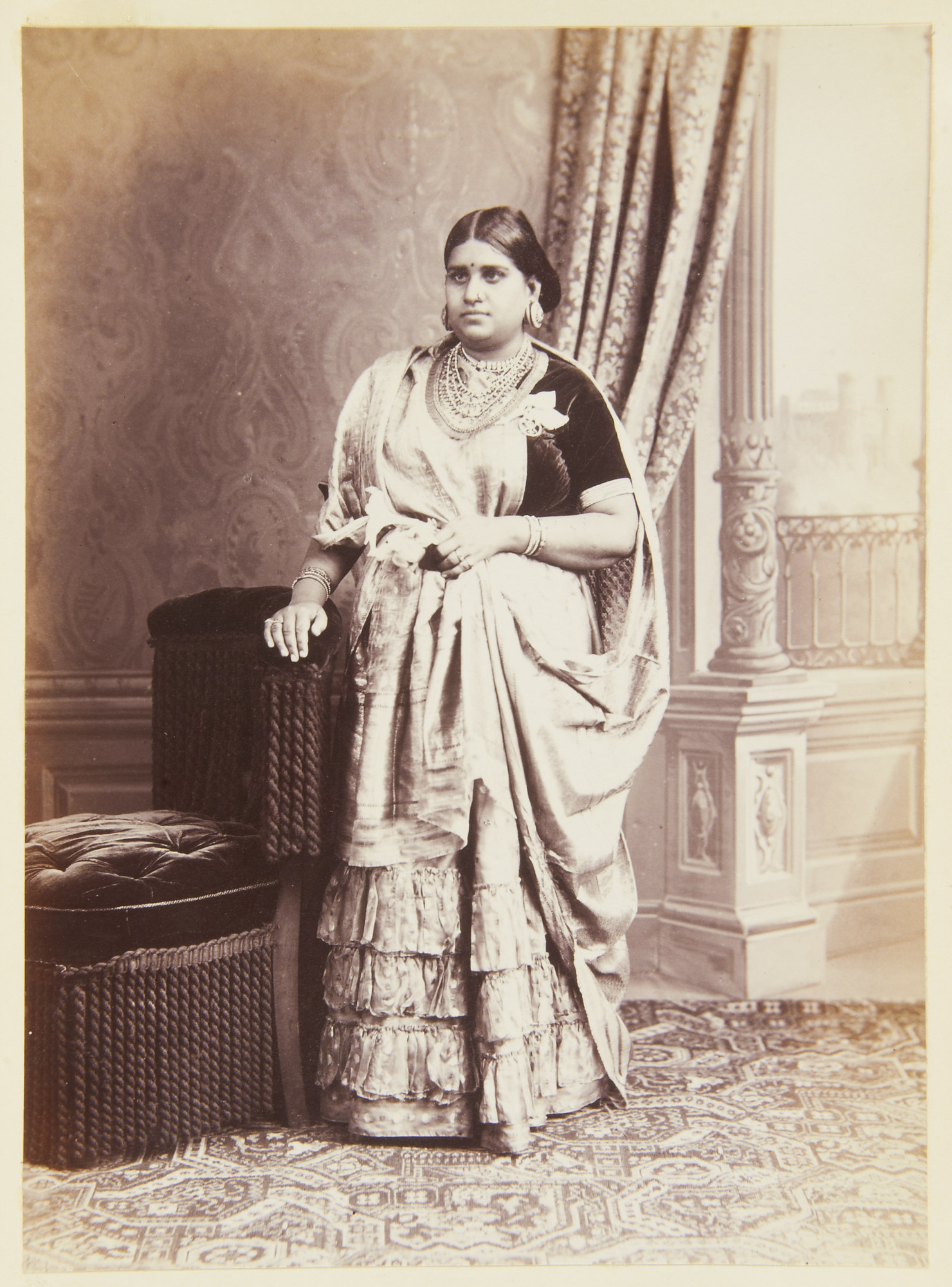 Her Highness Lakshmi Bayi Senior Bani of Travancore on whom the Queen conferred the Honour of the C.I. Photograph of Lackshmi Bhayie standing in three-quarters left pose and wearing a Sari. She stands next to a velvet covered chair and rests her right hand on it. In her right hand, she holds a flower. She also wears ear-rings and a nose stud.